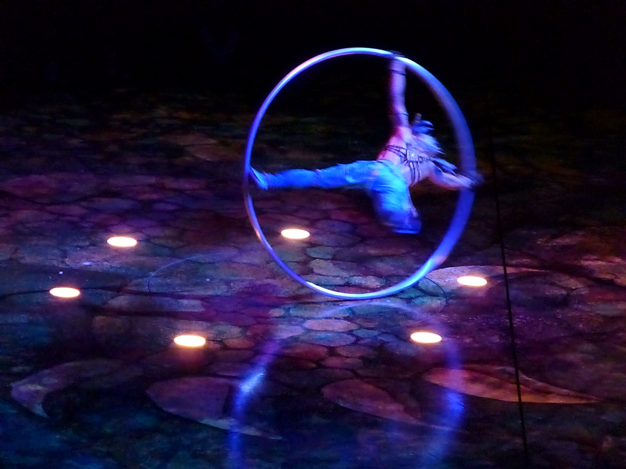 Cirque du Soleil 2012 Alegría, Istanbul, Turkey